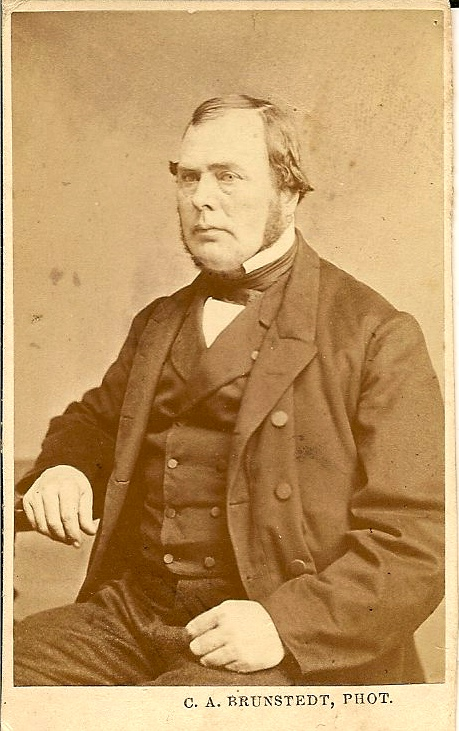 Swedish politician from late nineteenth century